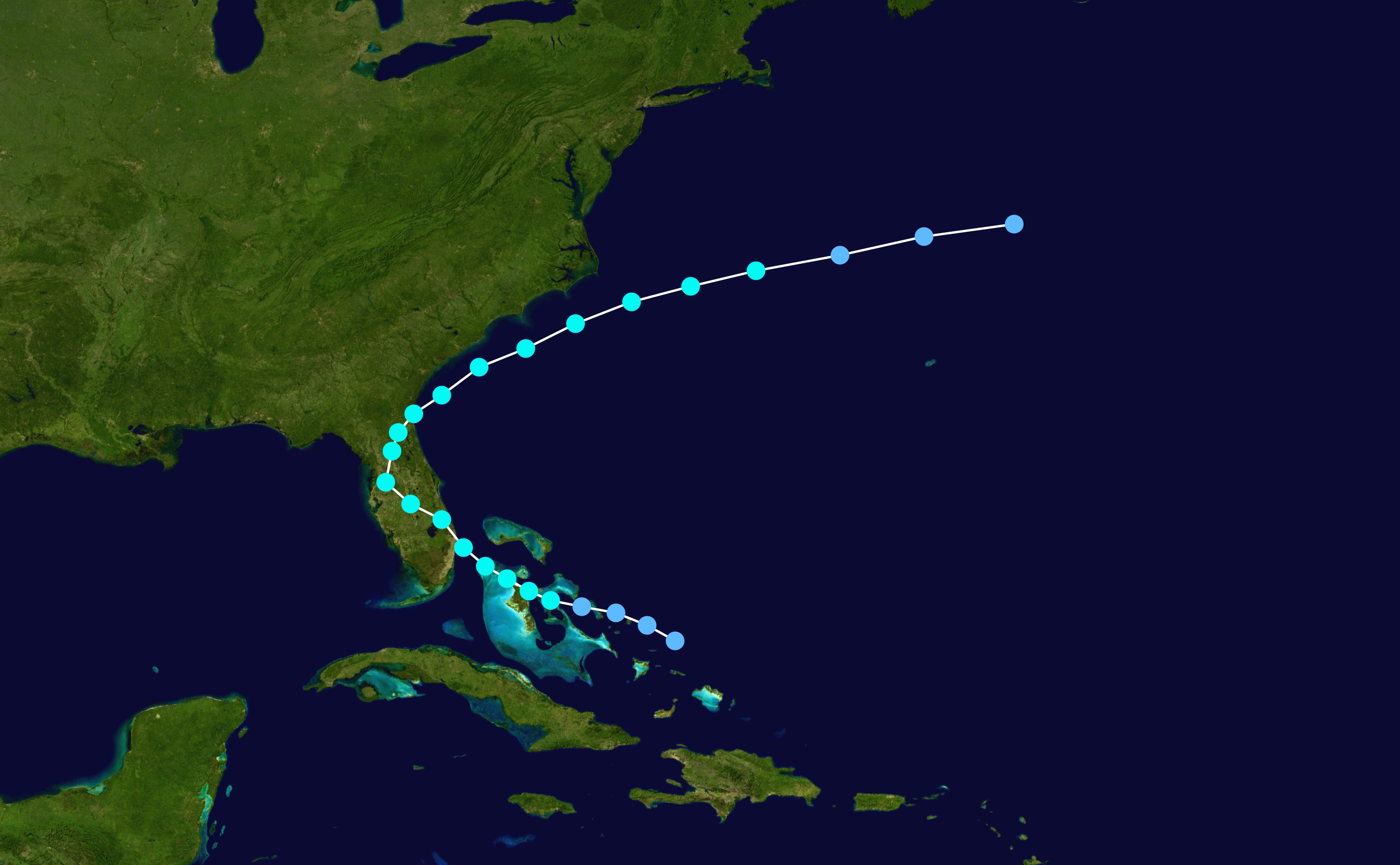 Tropical Storm Isidore (1984) track. Uses the color scheme from the Saffir-Simpson Hurricane Scale.